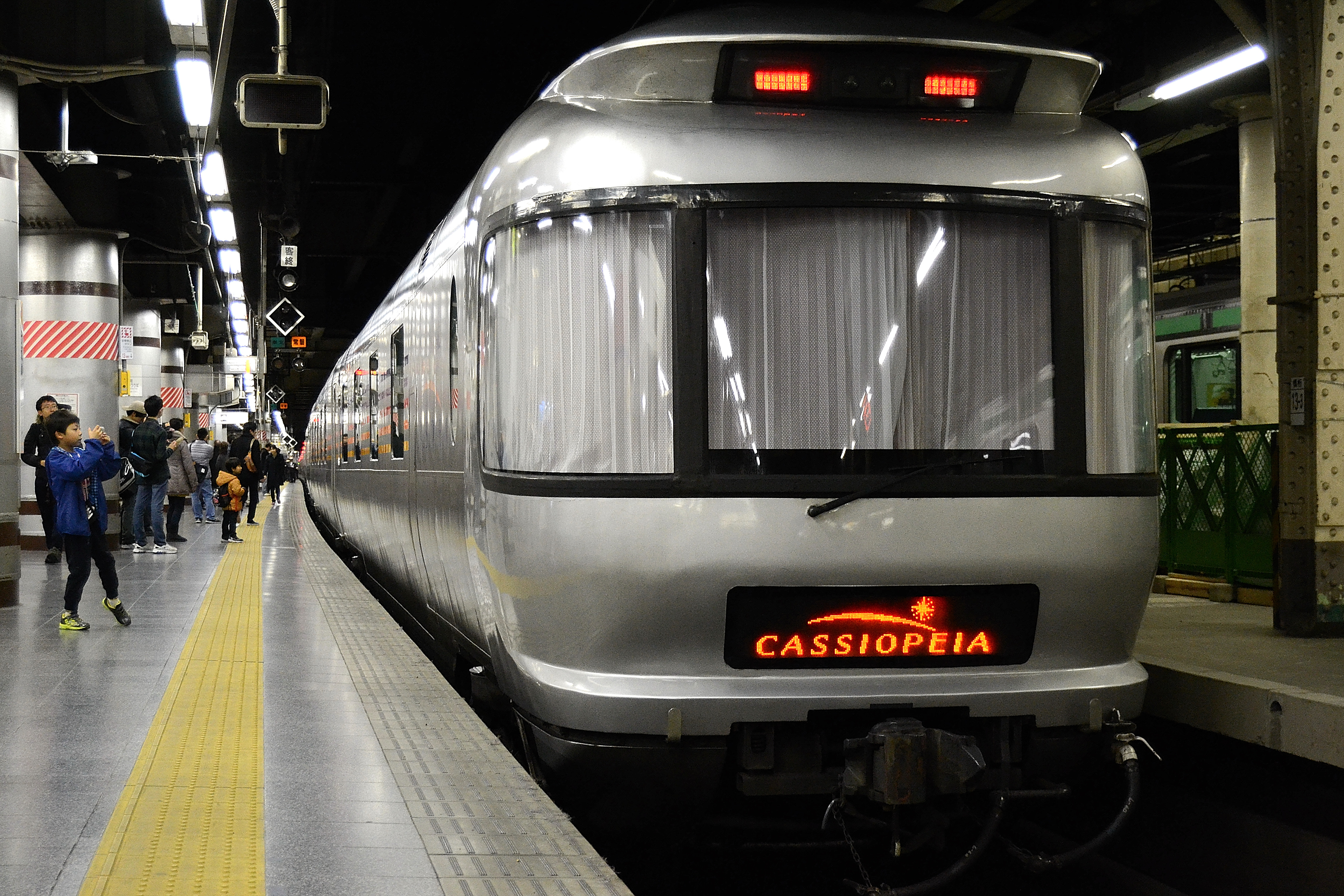 Platform 13 at Ueno Station